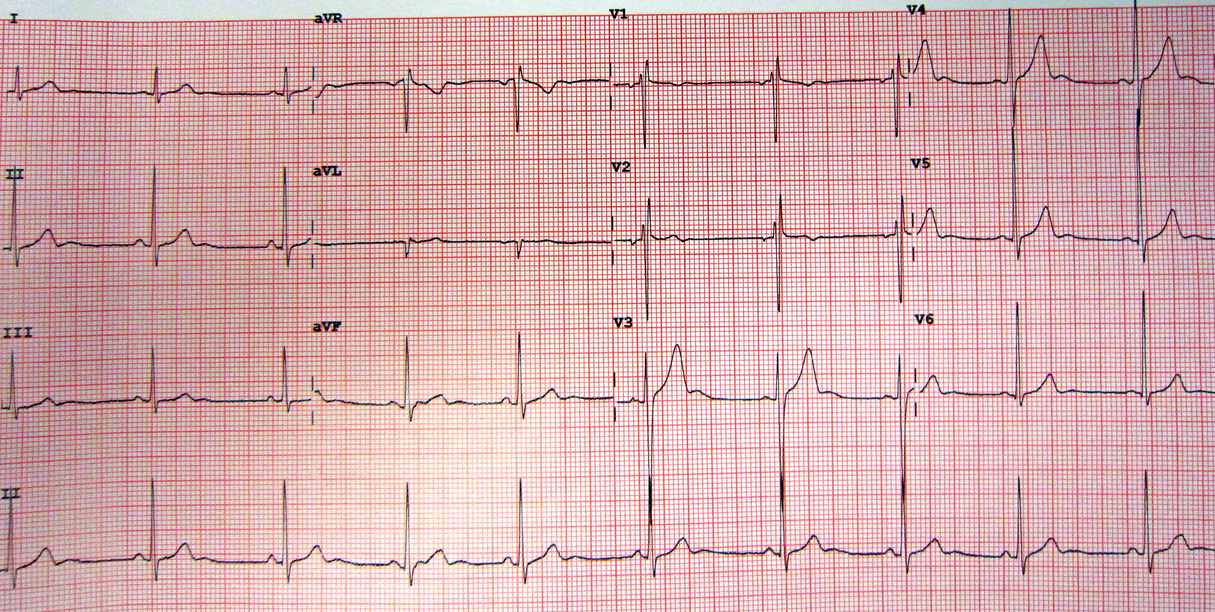 Benign early repolorization in a 15 year old male